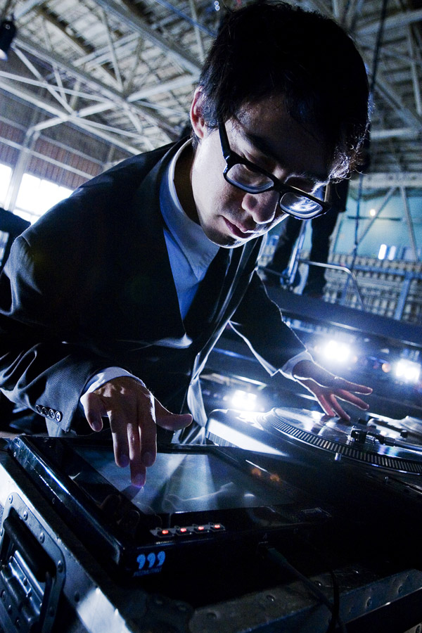 Mike Relm performing with the Lemur.